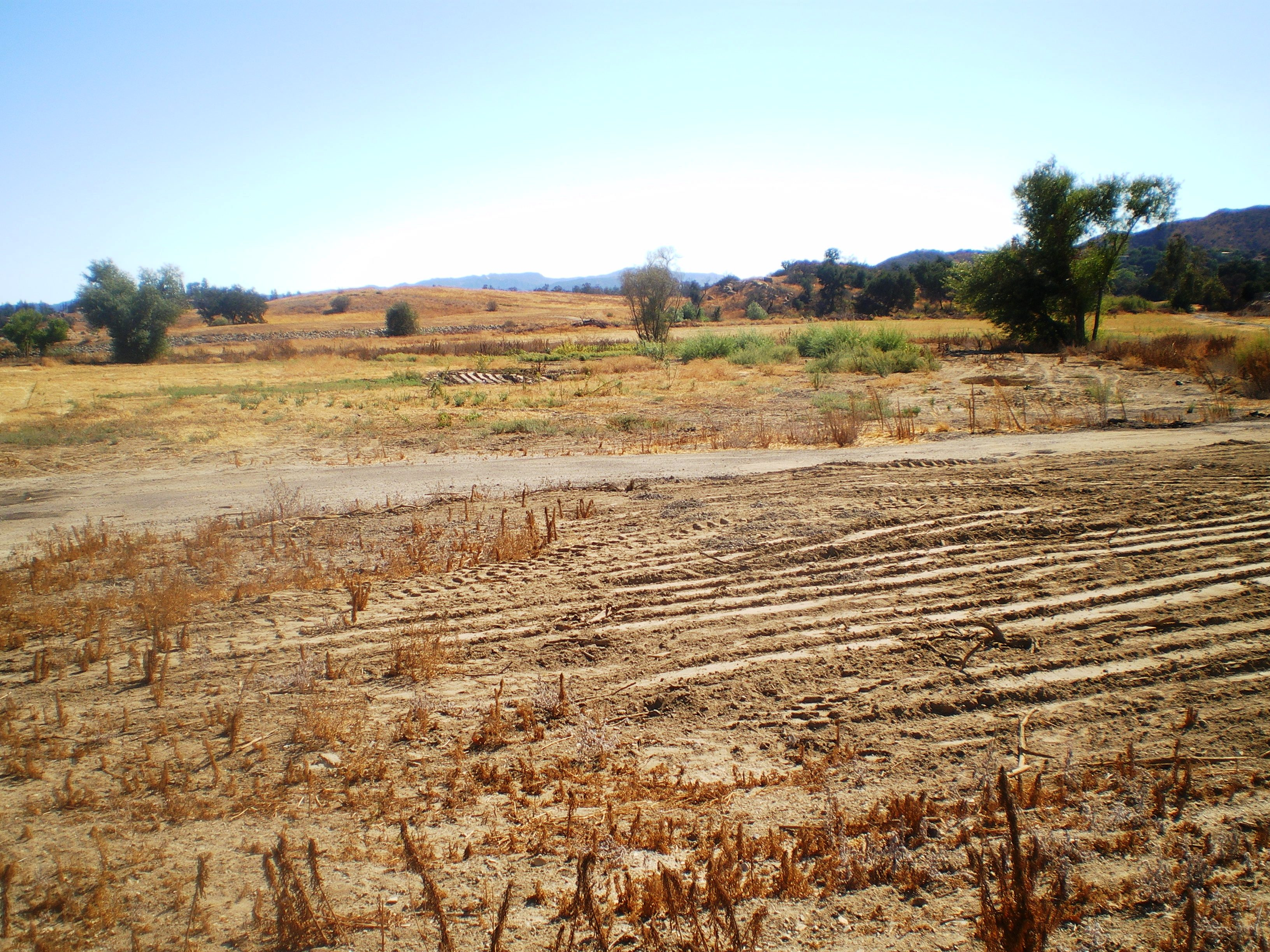 Chatsworth Reservoir Kiln Site, Southeast of intersection of Woolsey Canyon Rd. and Valley Circle Blvd., West Hills, Los Angeles, California (Los Angeles Historic-Cultural Monument #141) (Not accessible to the public; areas fenced off) This is not a particularly good picture; it should be considered a place holder until someone can provide a better one.